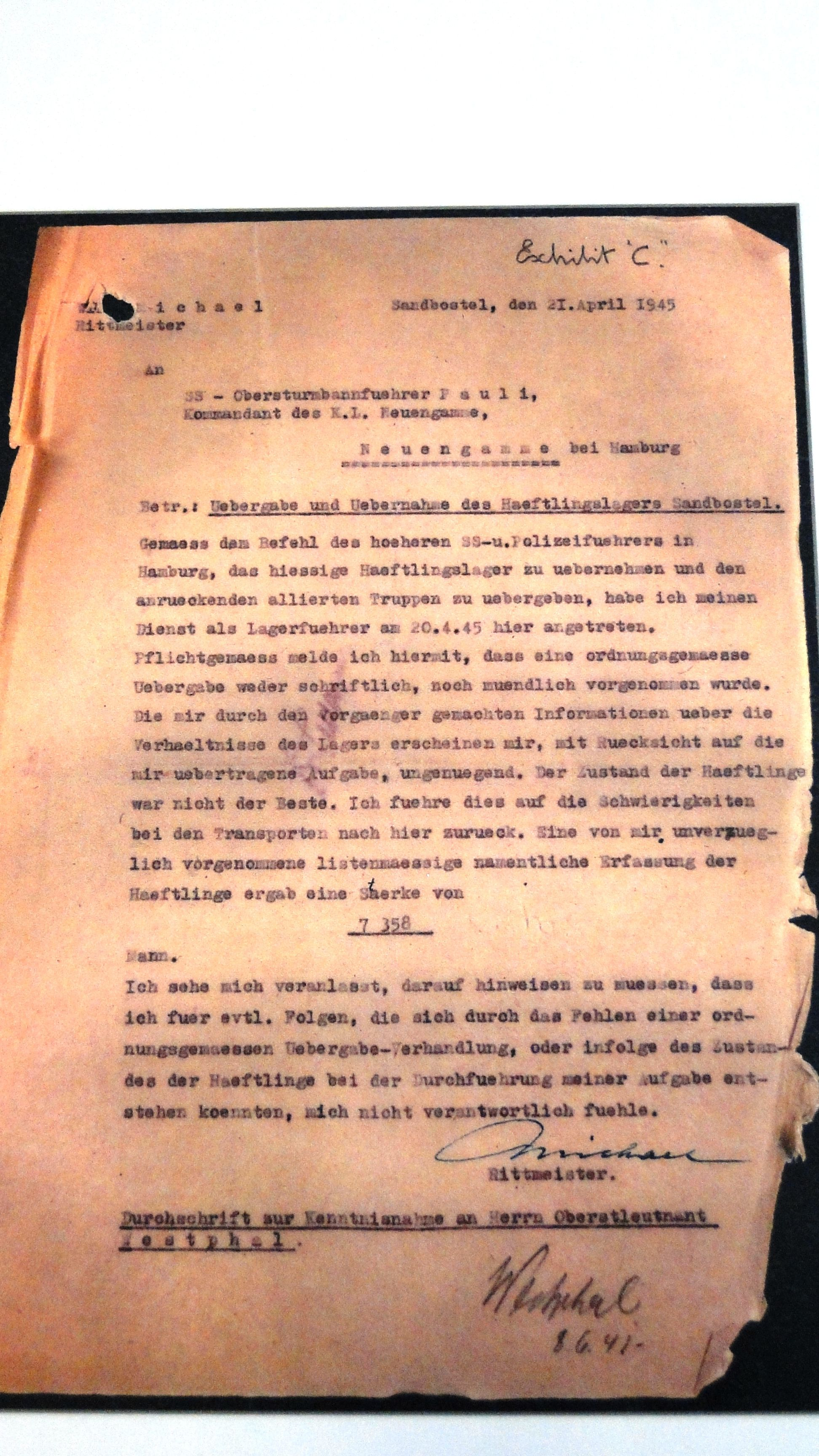 Letter from 1945 about the handover of Sandbostel POW camp Stalag X B, exhibit at Neuengamme concentration camp near Hamburg